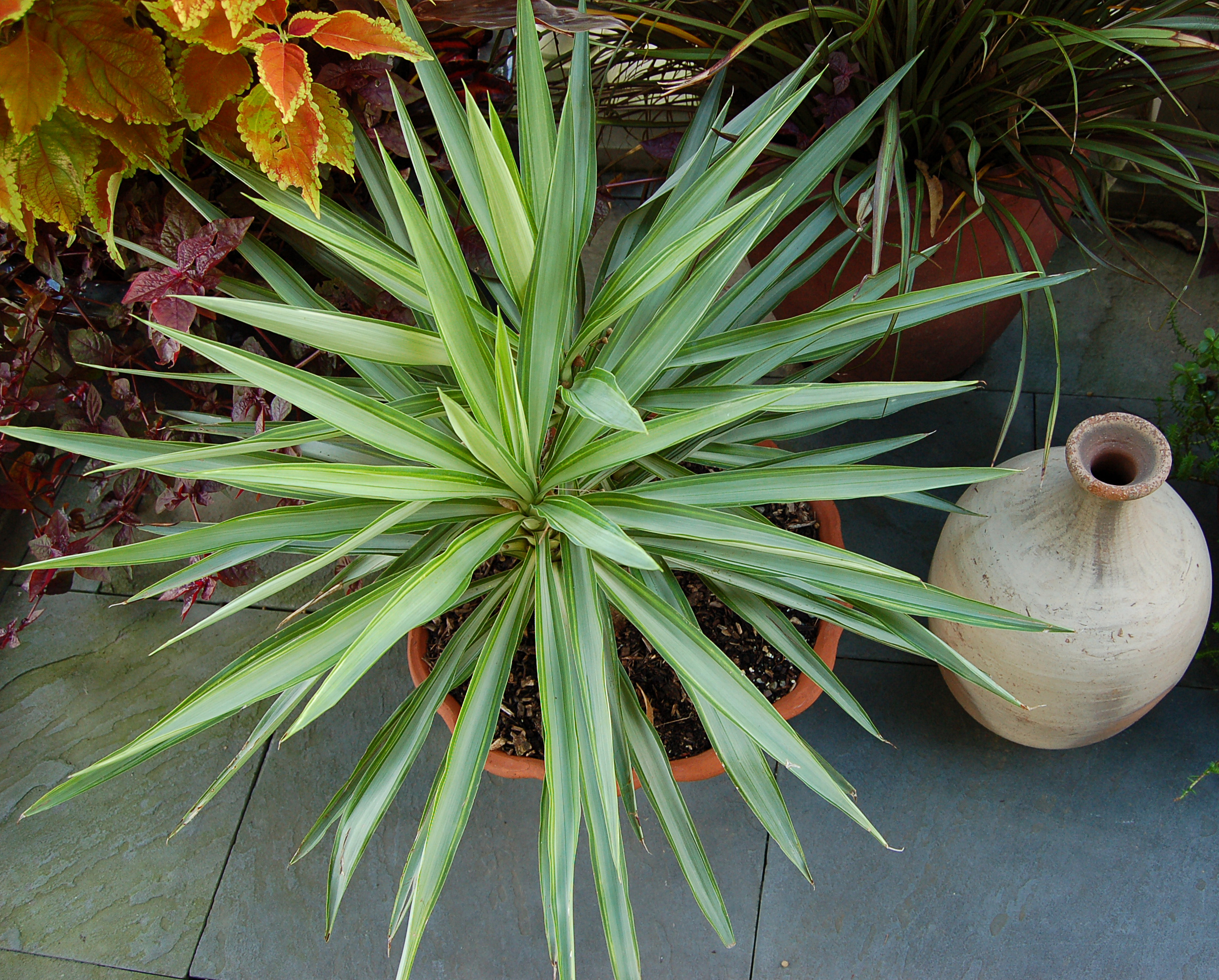 A top view picture the Yucca elephantipes en (syn: Yucca gigantea 'Silver Star' plant. Photo taken at the Chanticleer Garden in Pennsylvania, where it was identified.